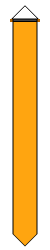 Oranje wimpel / orange pennant - own work -- Quistnix 22:35, 9 November 2005 (UTC)